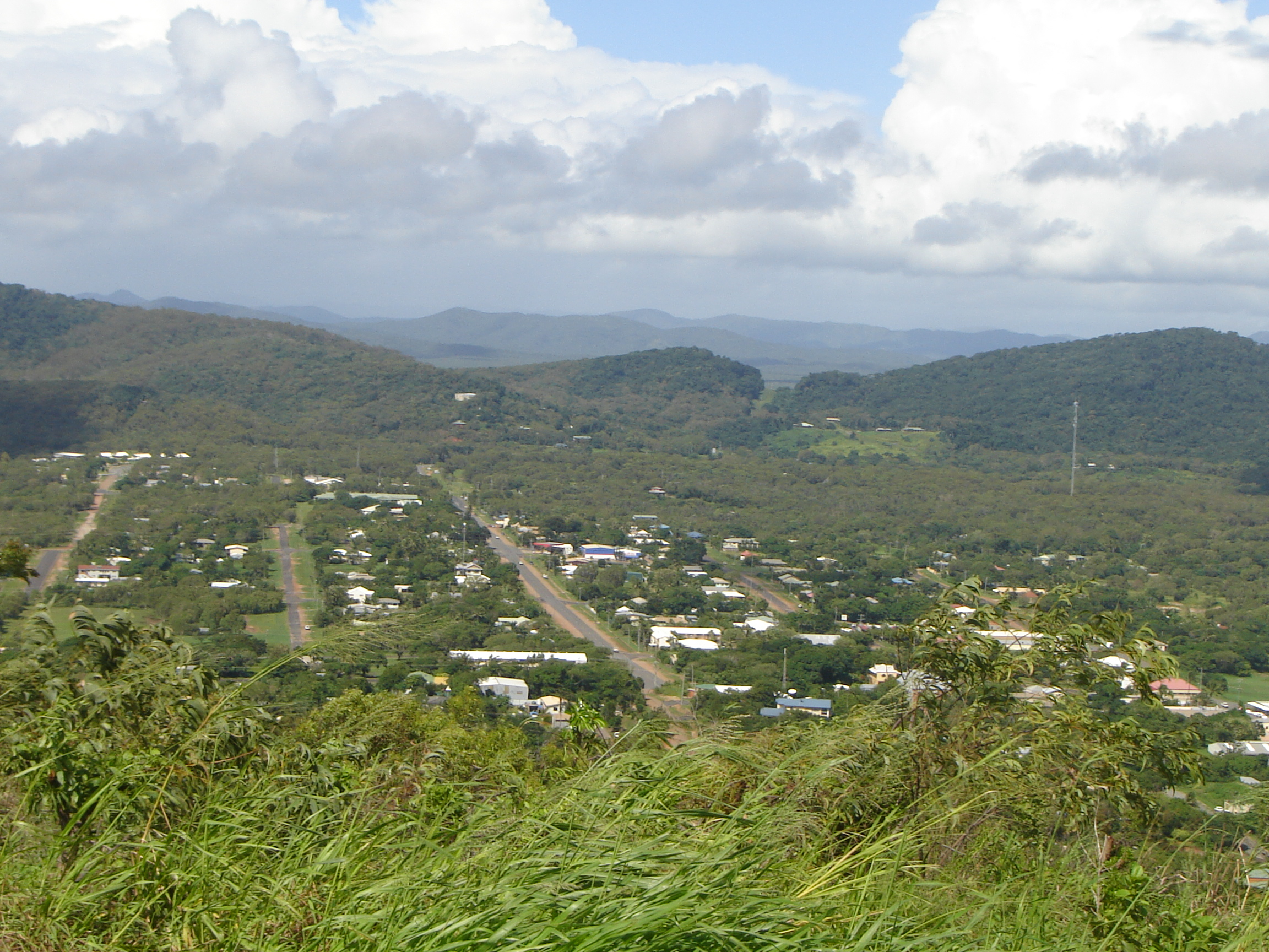 View of Cooktown from Grassy Hill. Photo taken by Frances76. Cooktown, Queensland, Australie